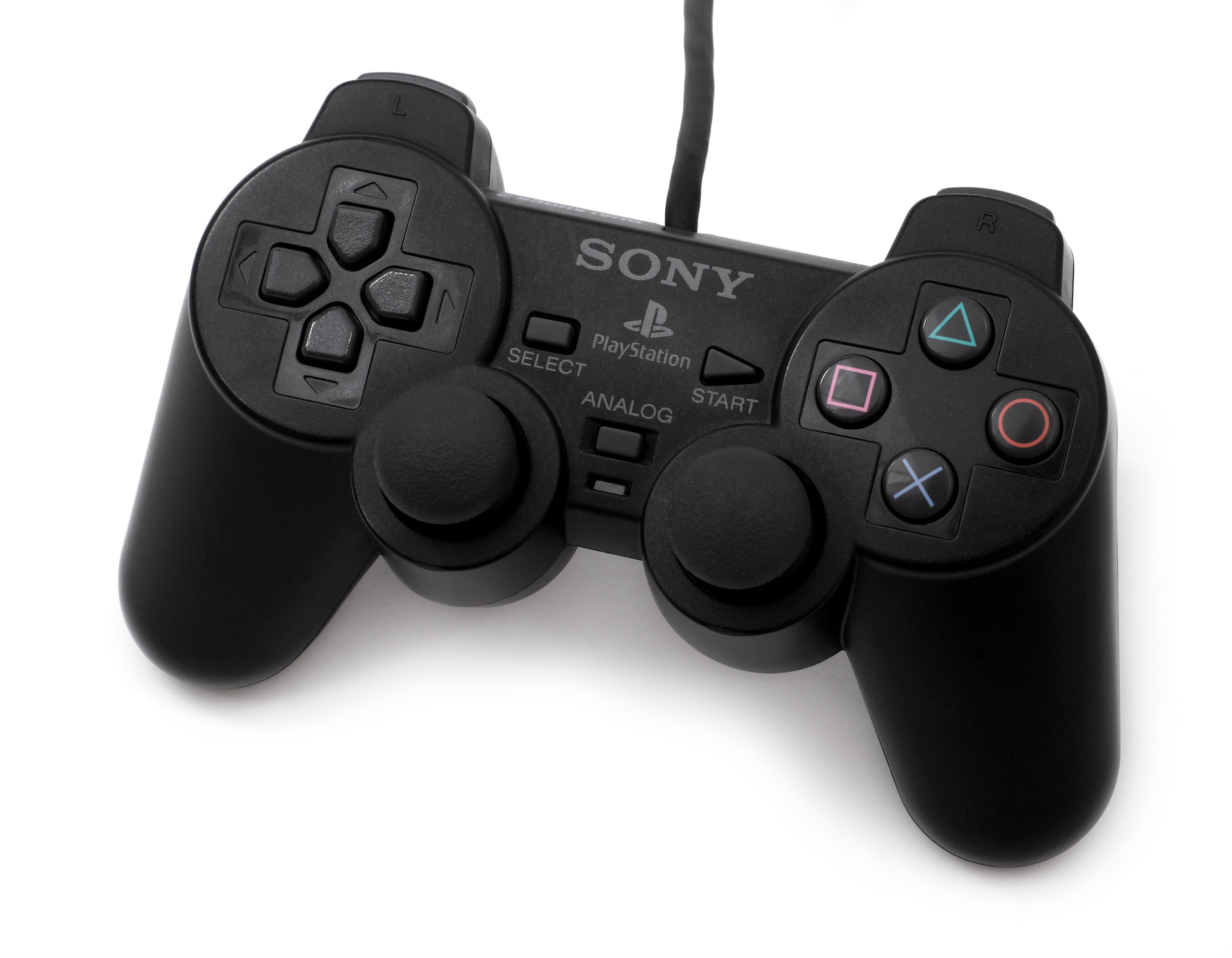 A PlayStation 2 DualShock 2 controller.